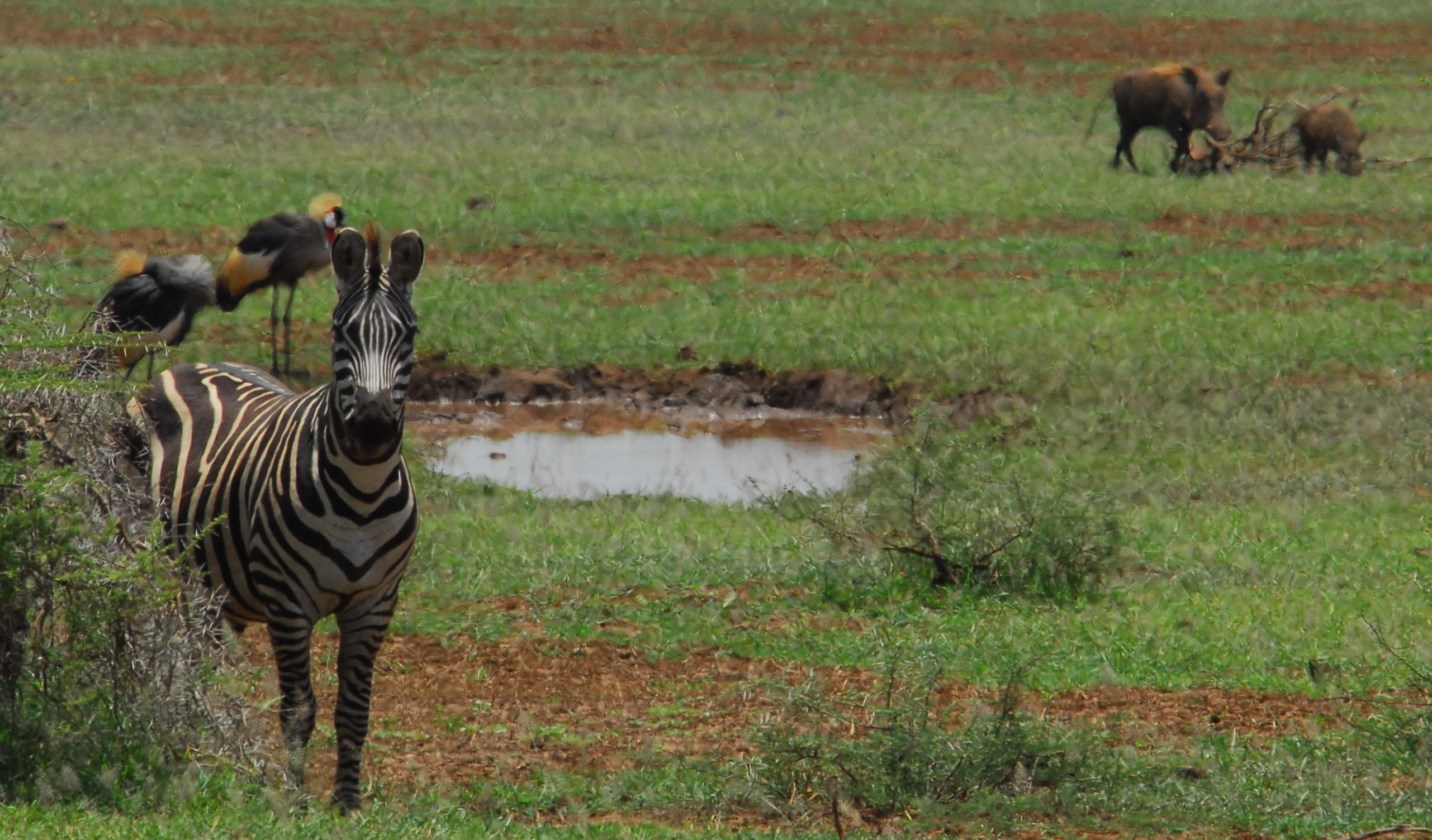 Wildlife in Tanzania, Manyara National Park